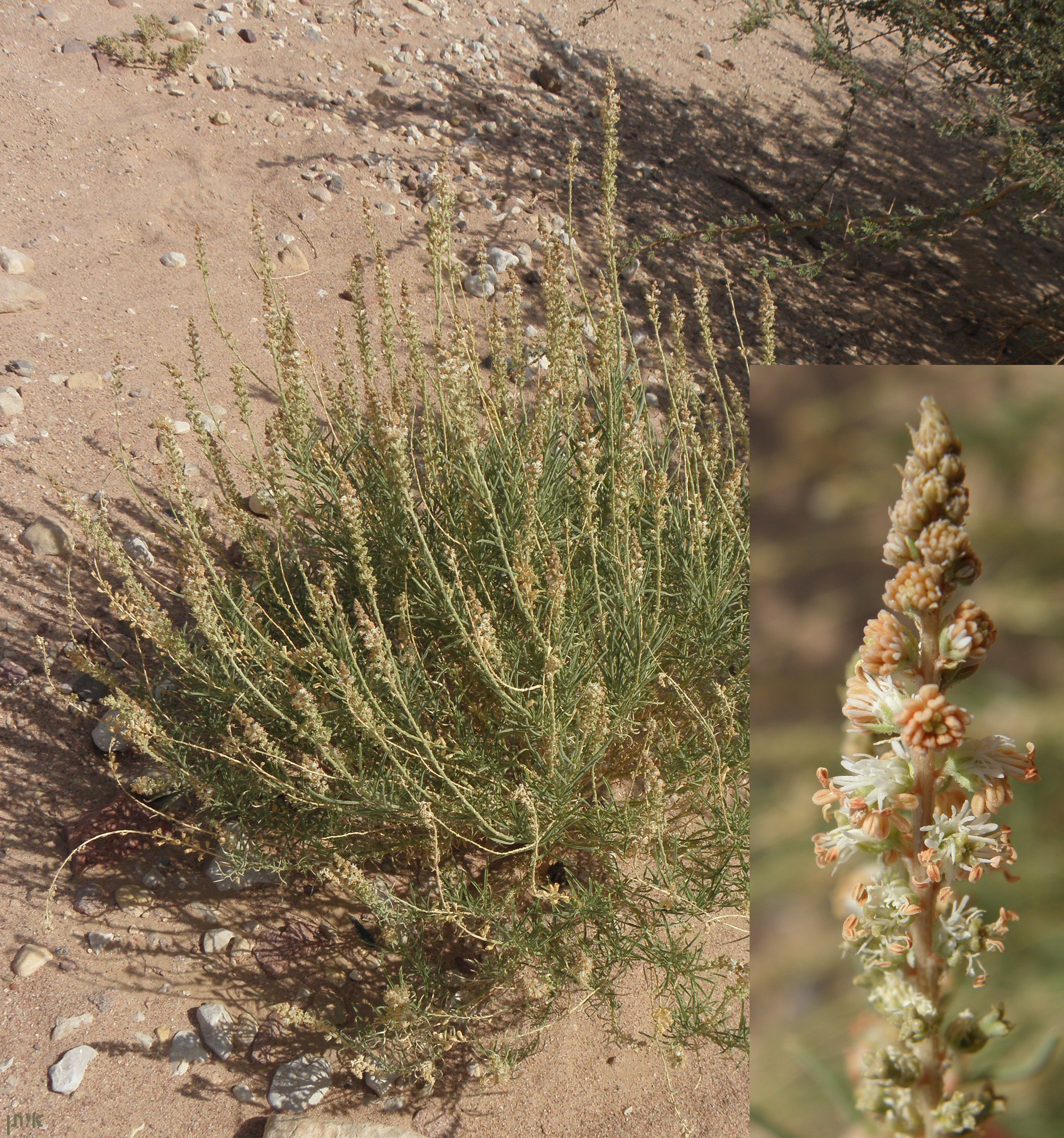 Caylusea hexagyna, southern Negev, Timna ששן מאפיר, פרק תמנע